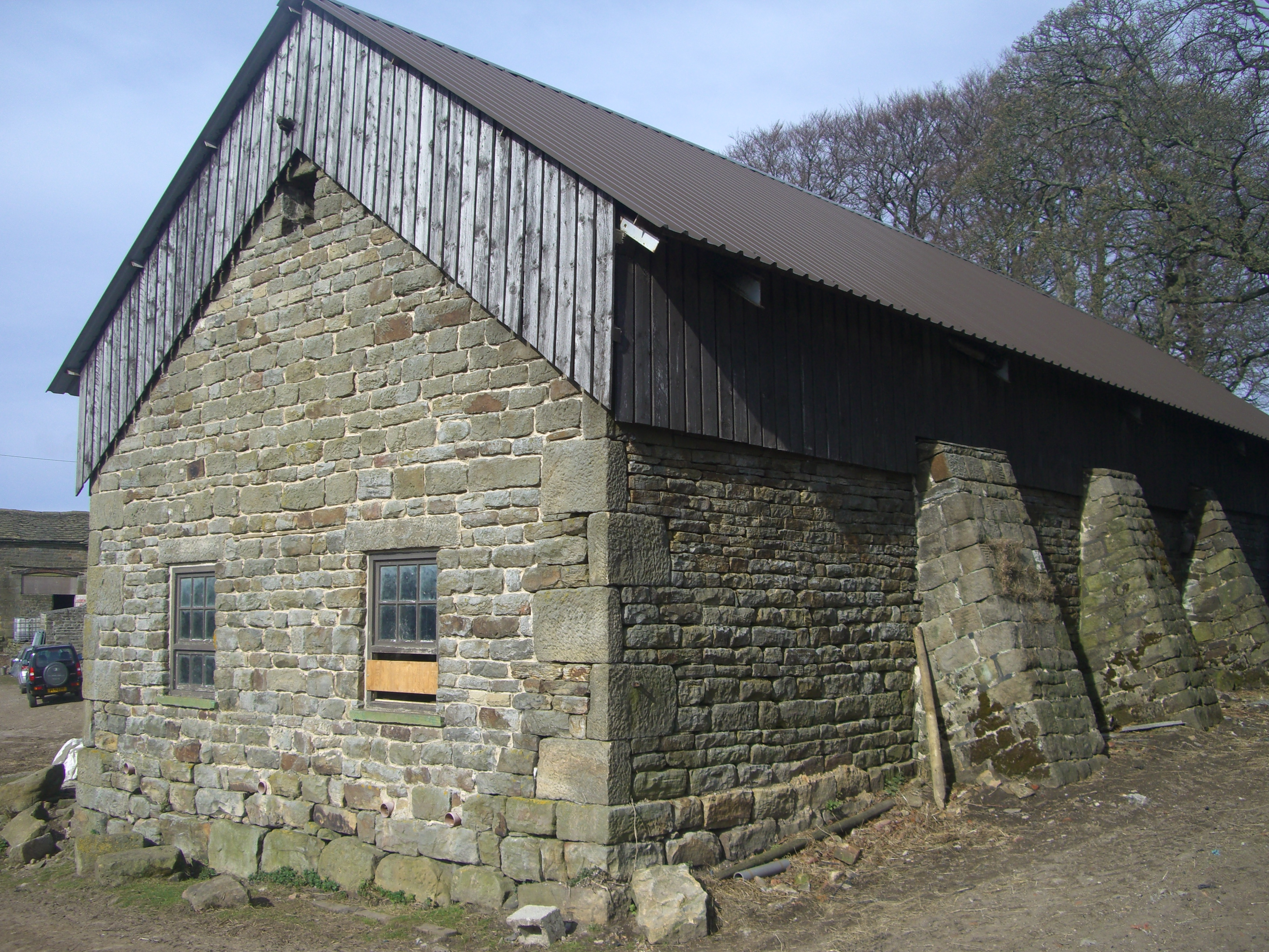 The cruck barn at Woodseats Farm on Windy Bank at Low Bradfield, Sheffield, England. This Grade II listed building dates from the 17th Century and was previously in a ruinous state with no roof. It has been protected by the erection of a framed shell with cladding over the roof.